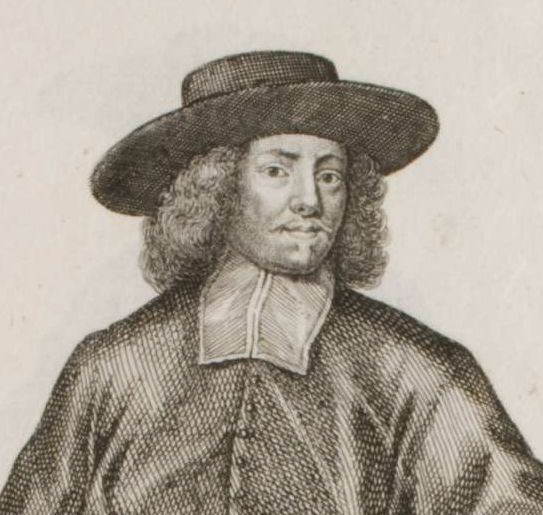 Detail of copper engraving entitled LEOPOLDVS A COLONITZ SRE Cardinalis Archiep